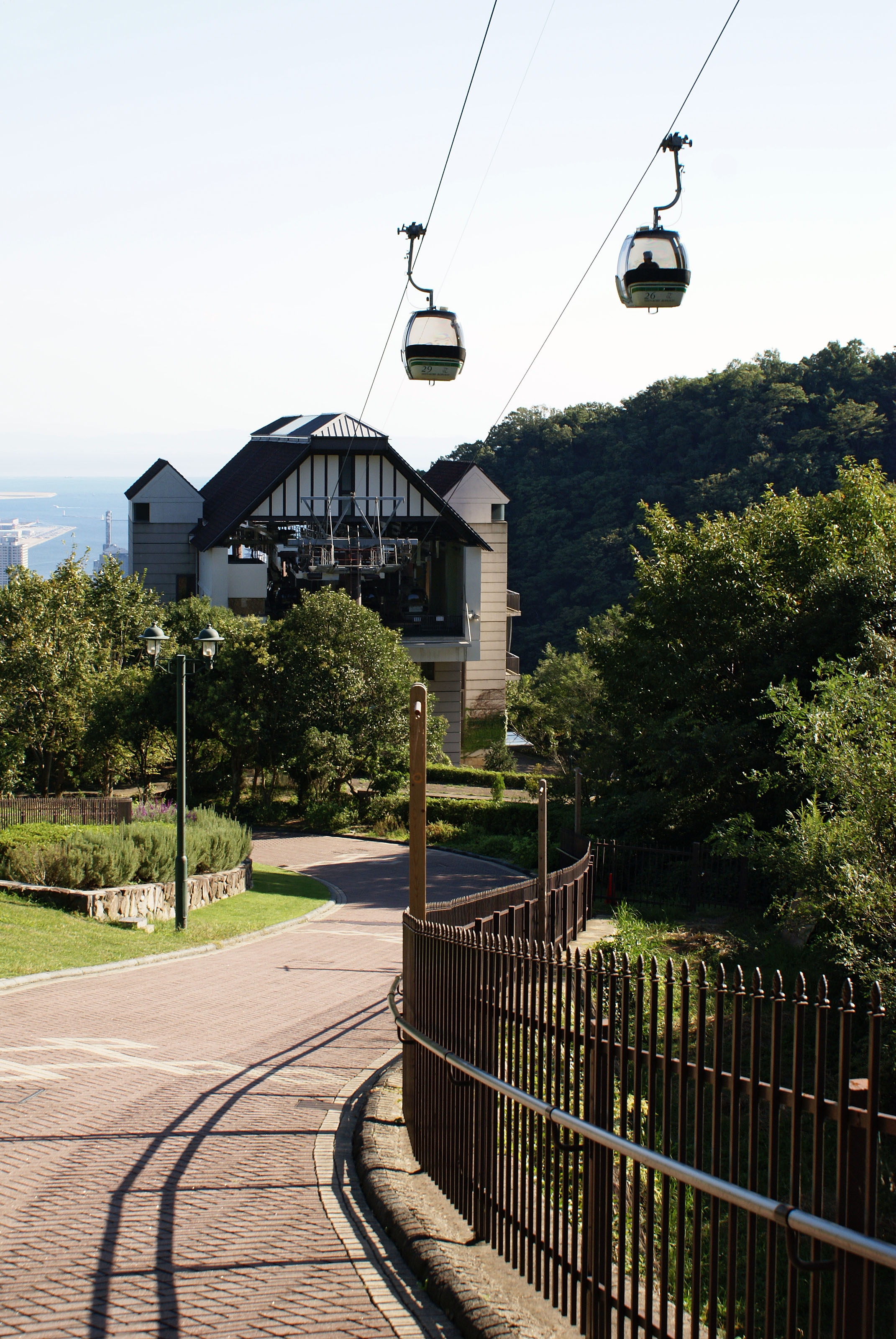 Shin-kobe Ropeway in Kobe, Japan